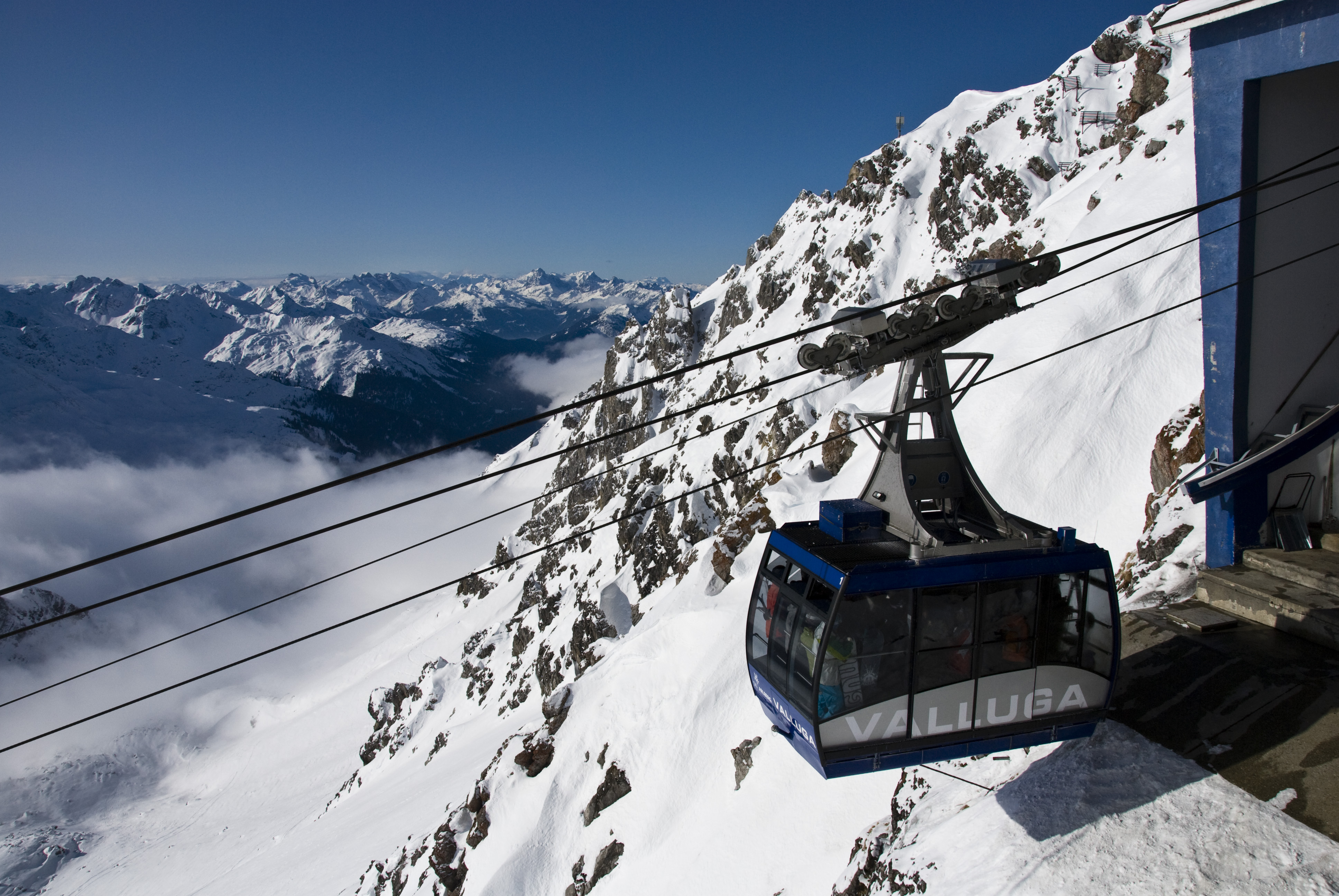 Valluga aerial tramway arriving at top station.